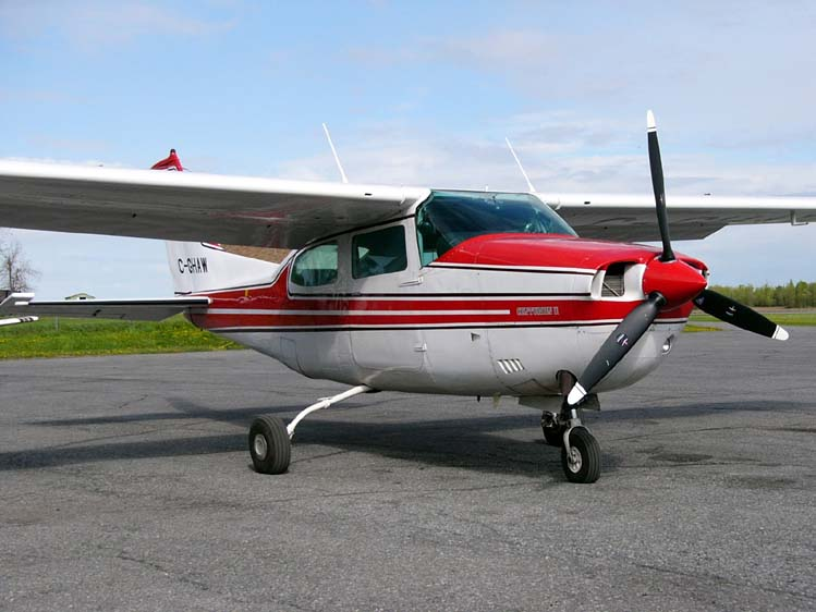 Cessna T210L (C-GHAW)